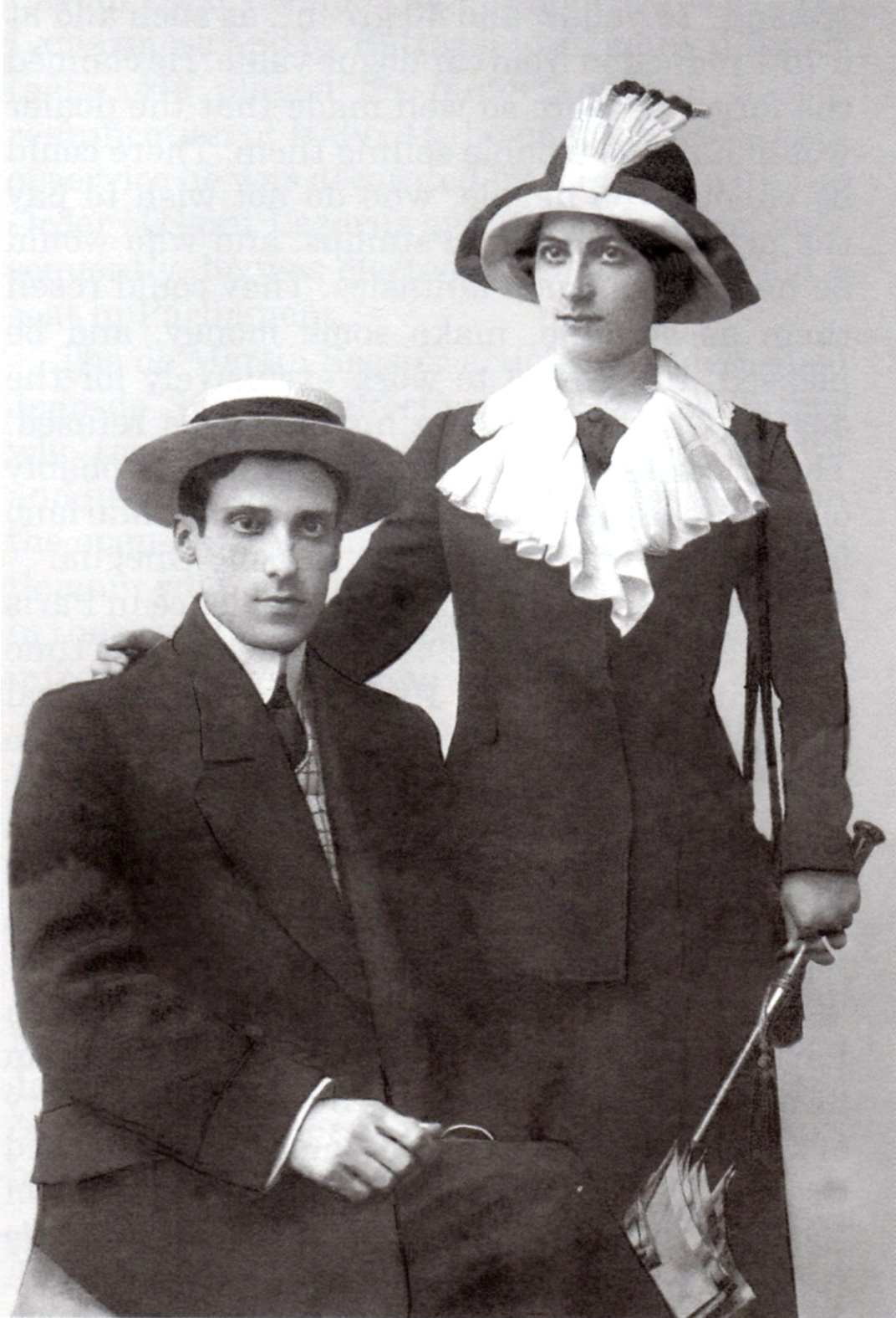 Studio photograph of Jean de Sperati and wife Marie Louise Corne c. 1914. Source: The Work of Jean de Sperati II, Robson Lowe & Carl Walske, 2001, p. 126.